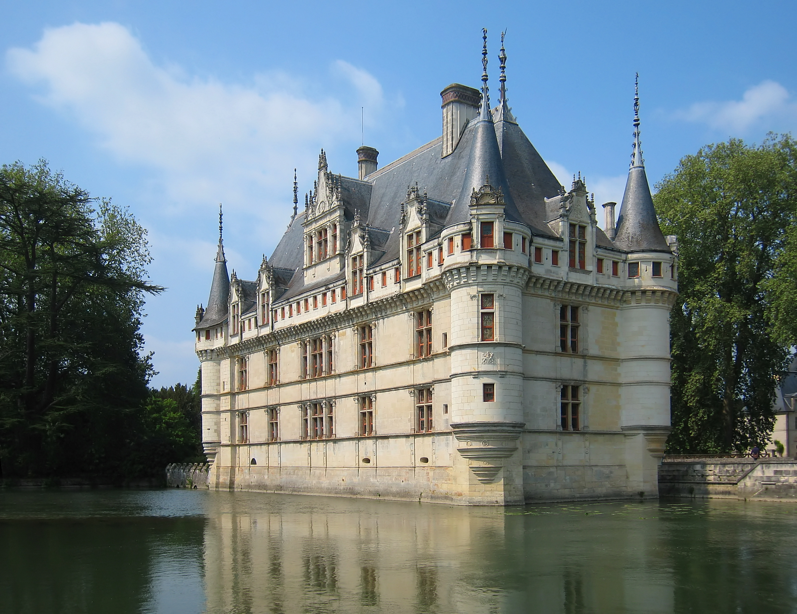 Parkside of the Château d'Azay-le-Rideau in the village of Azay le Rideau on the river Indre, Region Centre, Département Indre-et-Loire/France.